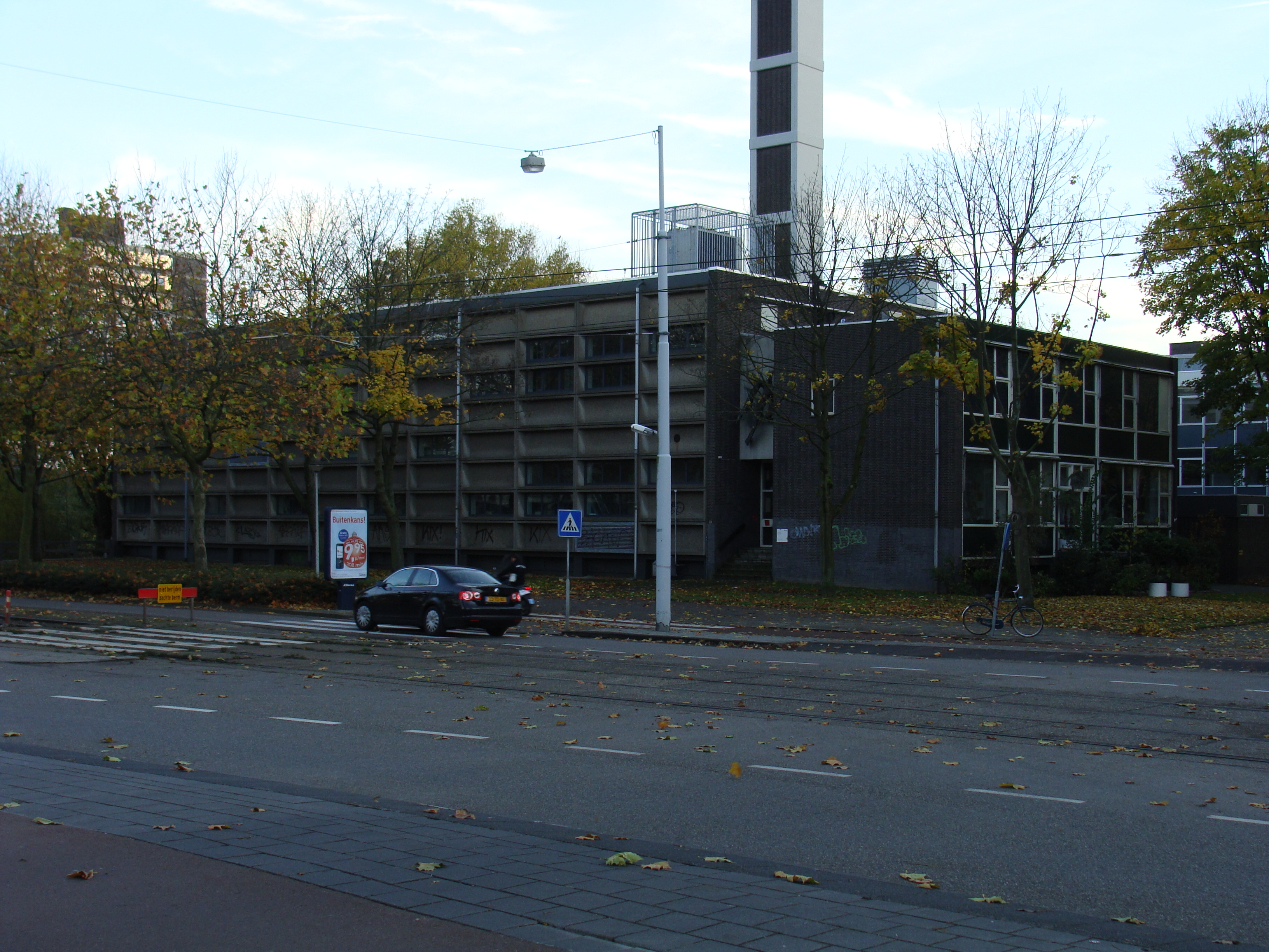 Telephone exchange Amsterdam-Slotervaart, at the Plesmanlaan, Amsterdam, the Netherlands. Building dates from early 1960s, architect unknown (Dienst der Publieke Werken, Gemeente Amsterdam (Department of Public Works, Municipality of Amsterdam), see [1])